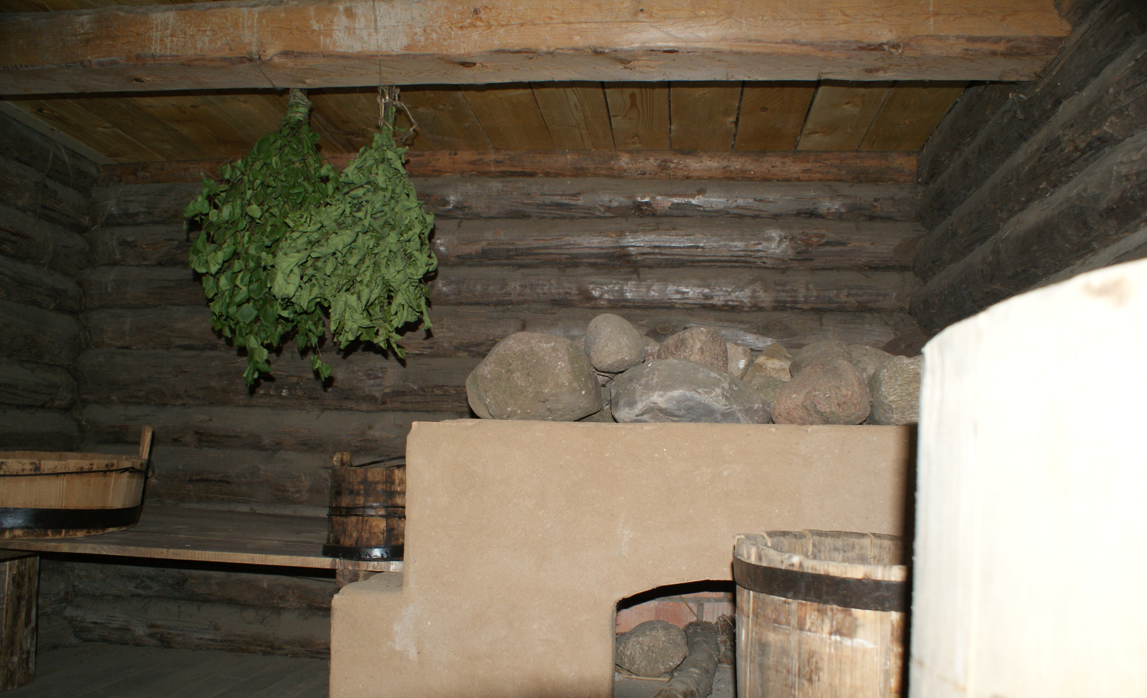 Banya in State museum of folk architecture and life, Belarus